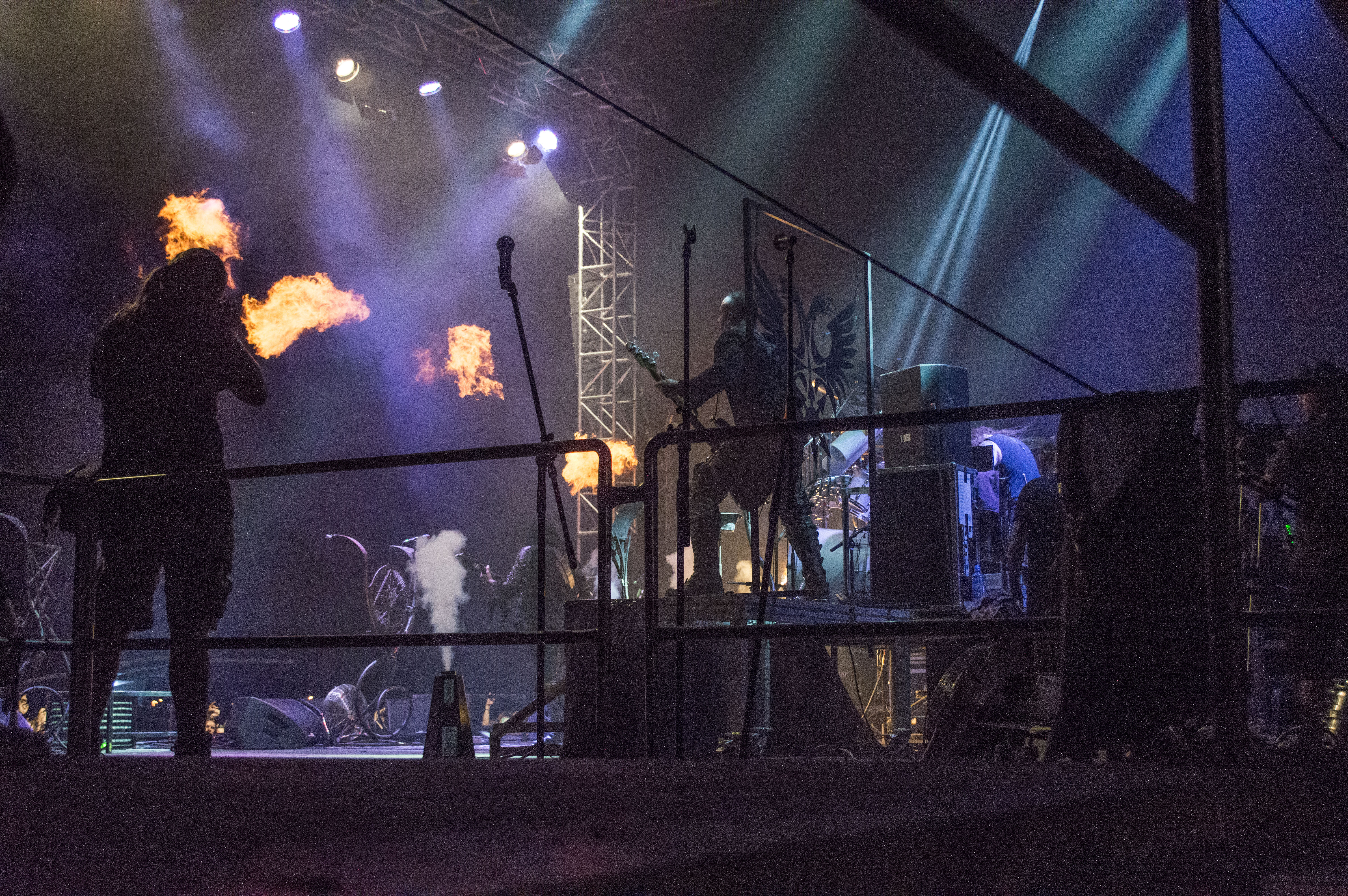 Metal festival Brutal Assault in Josefov, Czech republic.